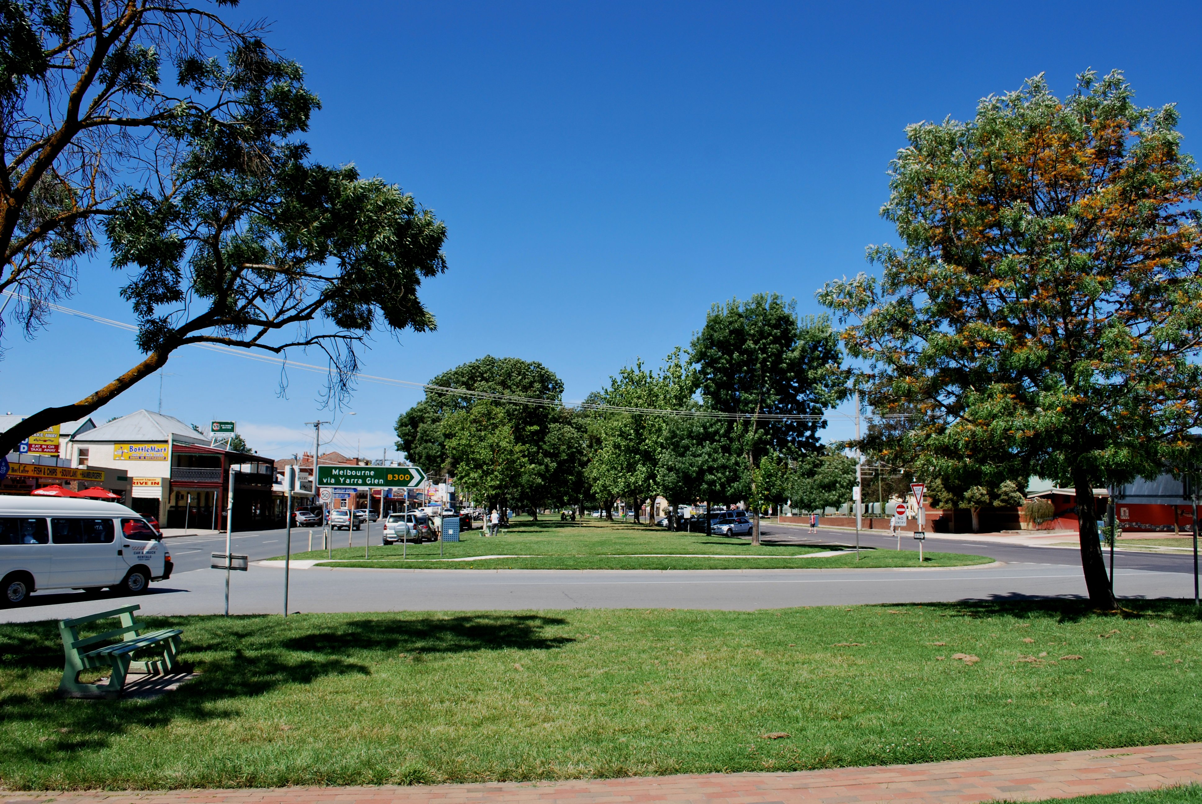 The main street (Goulburn Valley Highway) of Yea, Victoria